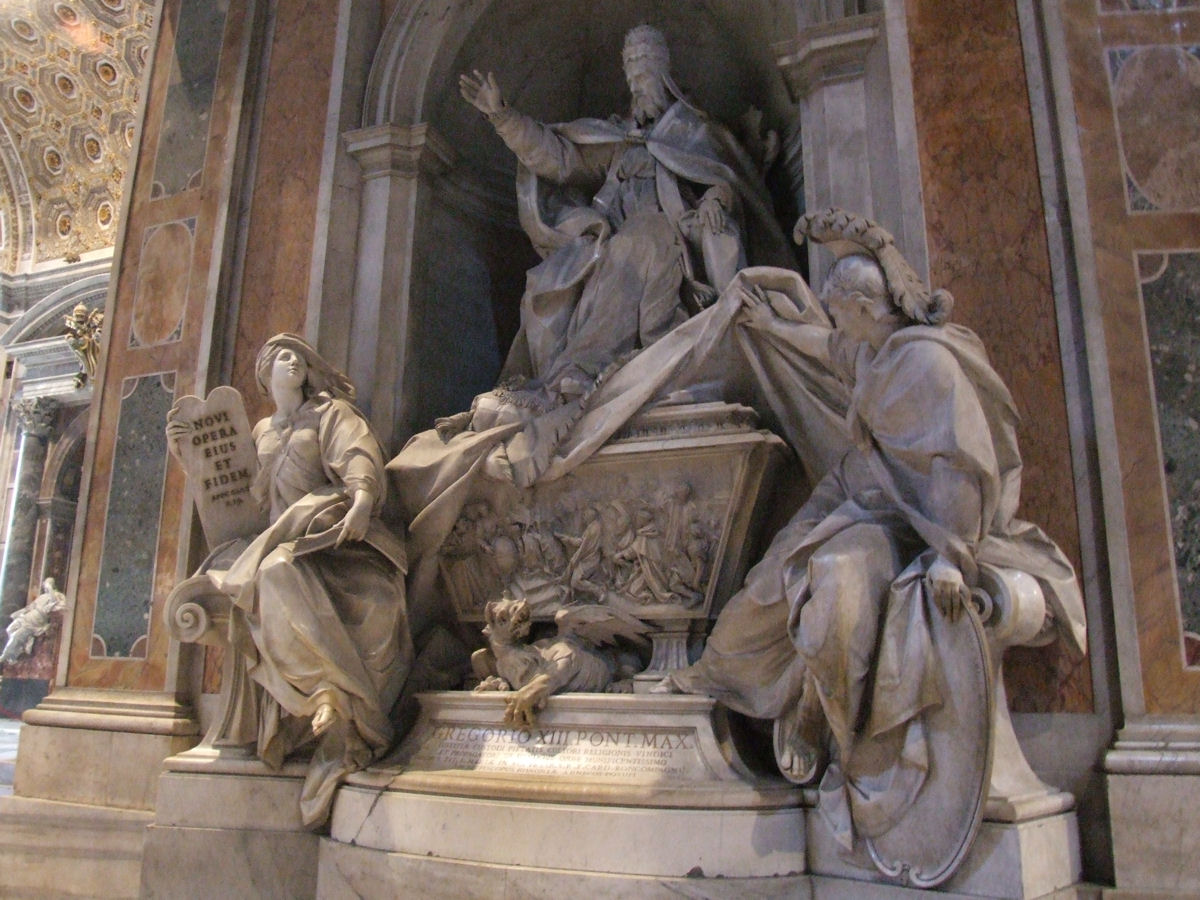 Tomb of Pope Gregory XIII St. Peter's Basilica, Rome, Italy